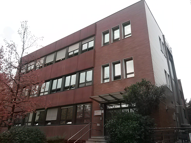 The V-Building of UNIMI in the Didactic-Area of Città Studi. Via Venezian, Milano.